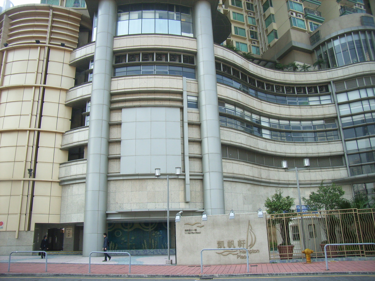 凱帆軒（Hampton Place） 是zh:香港zh:西九龍zh:奧運站的一個私人屋苑. Photo by User:OLAMB